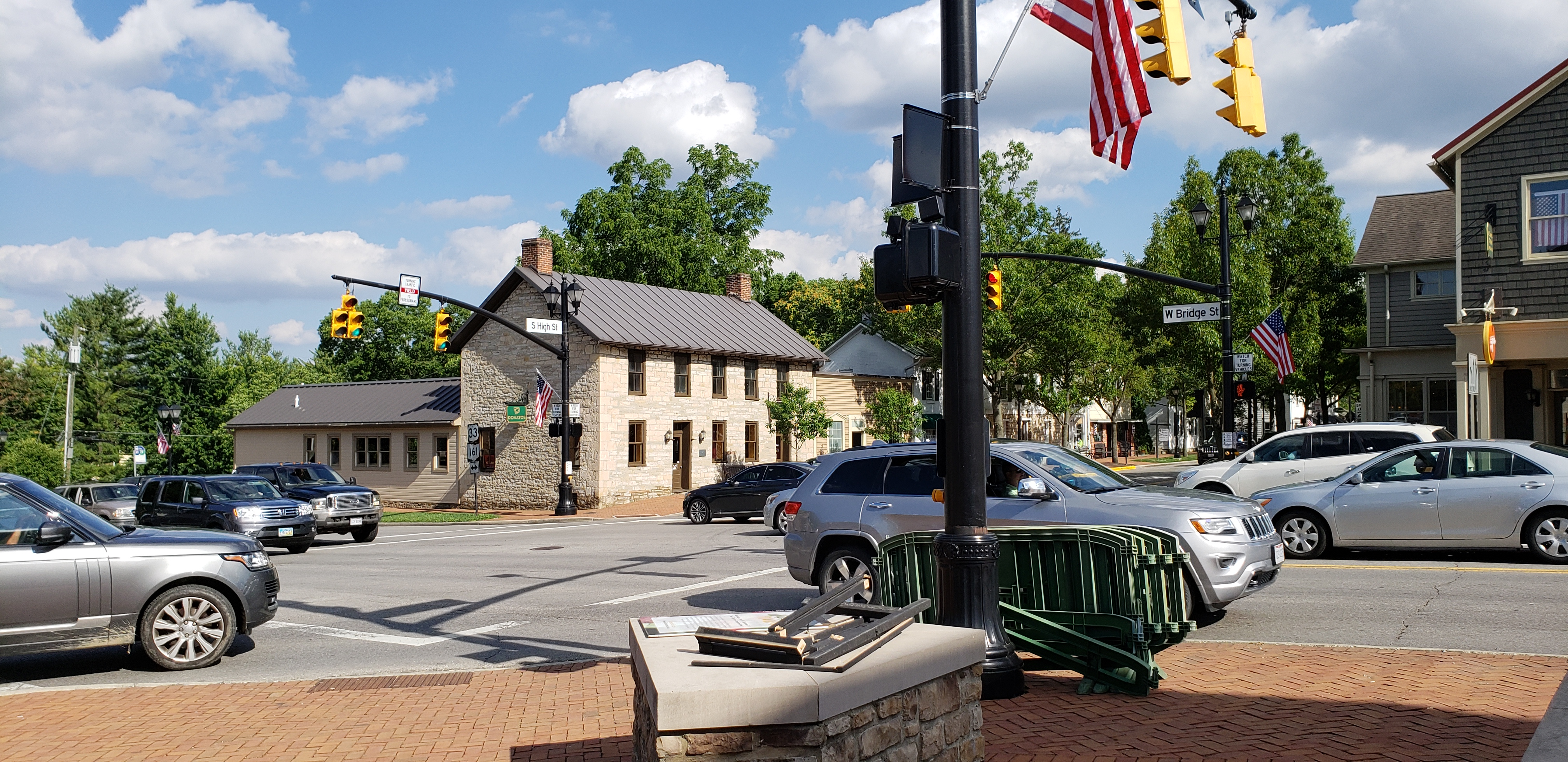 Intersection of Ohio State Routes 161 and 745 in Dublin, Ohio.